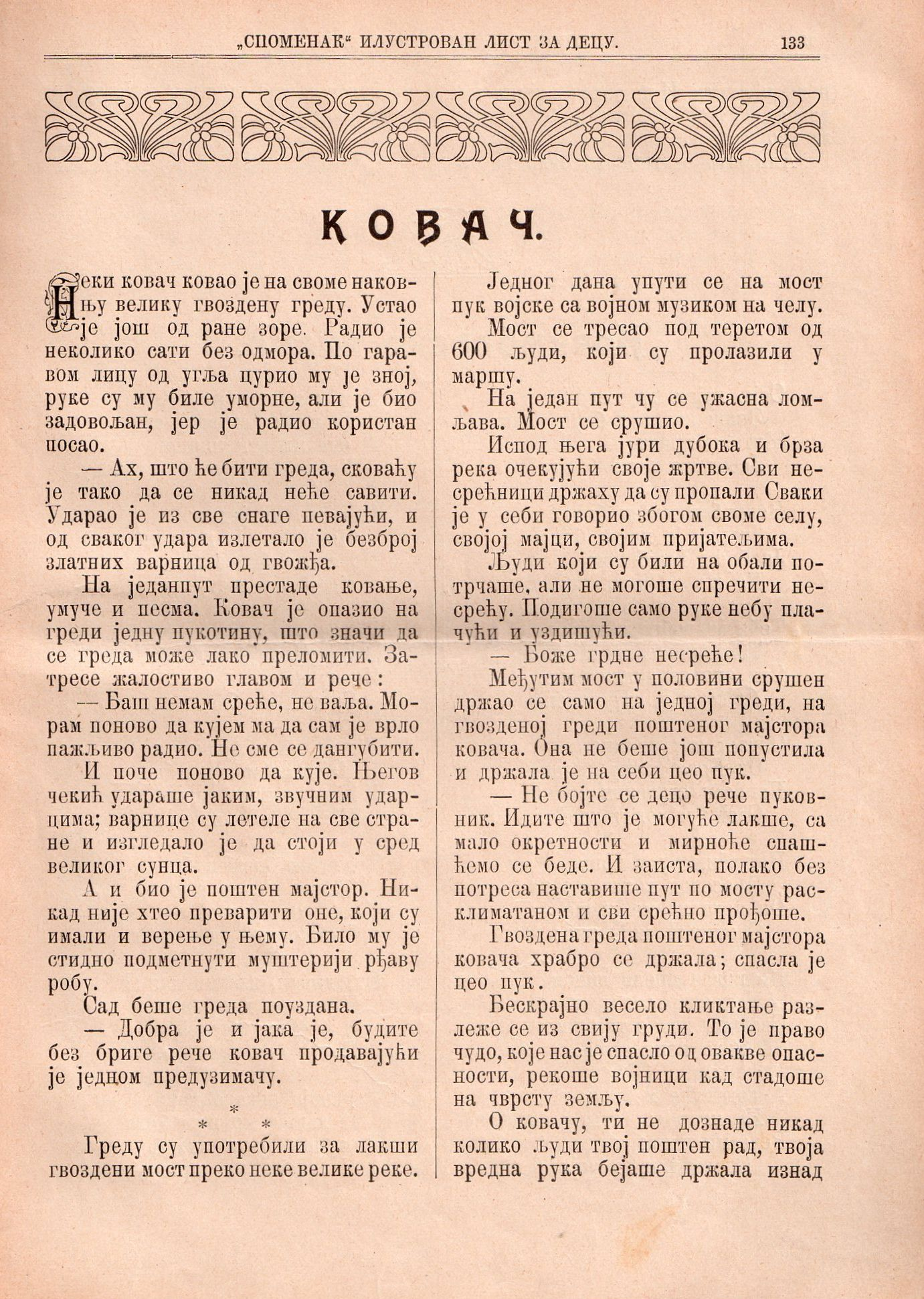 Spomenak, children magazine, number 11, pp 133-134, 1909.